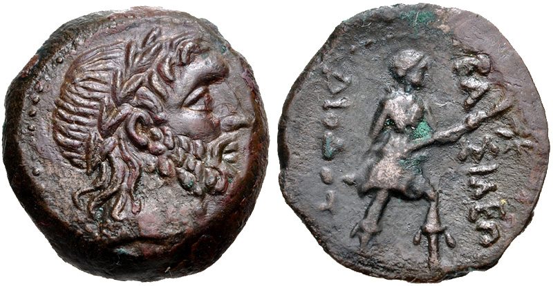 Diodotos II Ai Khanoum mint. . Circa 235-225 BC. Æ (16mm, 3.19 g, 7h). Aï Khanoum mint. Laureate head of Zeus right / Artemis advancing right, holding torch; star to right.